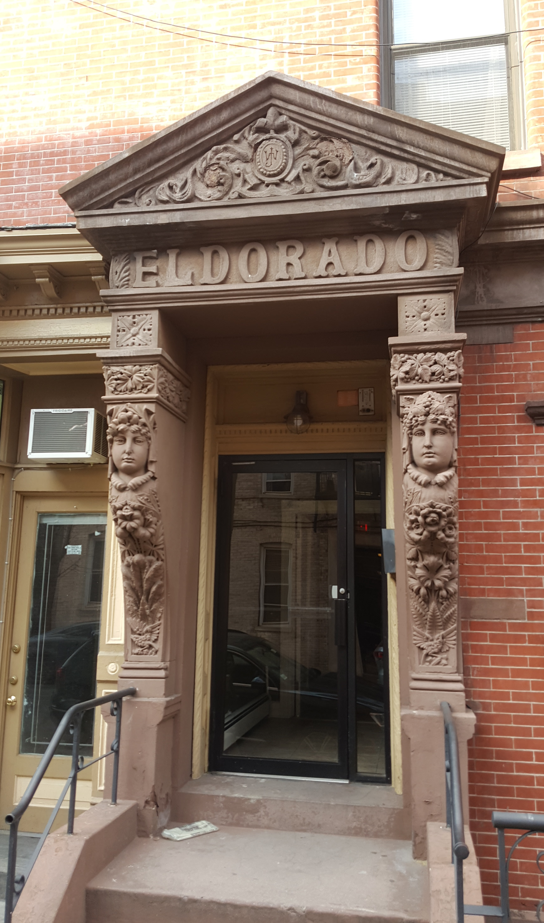 This is the southern door to a block of the historic El Dorado Apartments, providing an entry from Twelfth Street to the 1200 / 1202 Washington St. building.